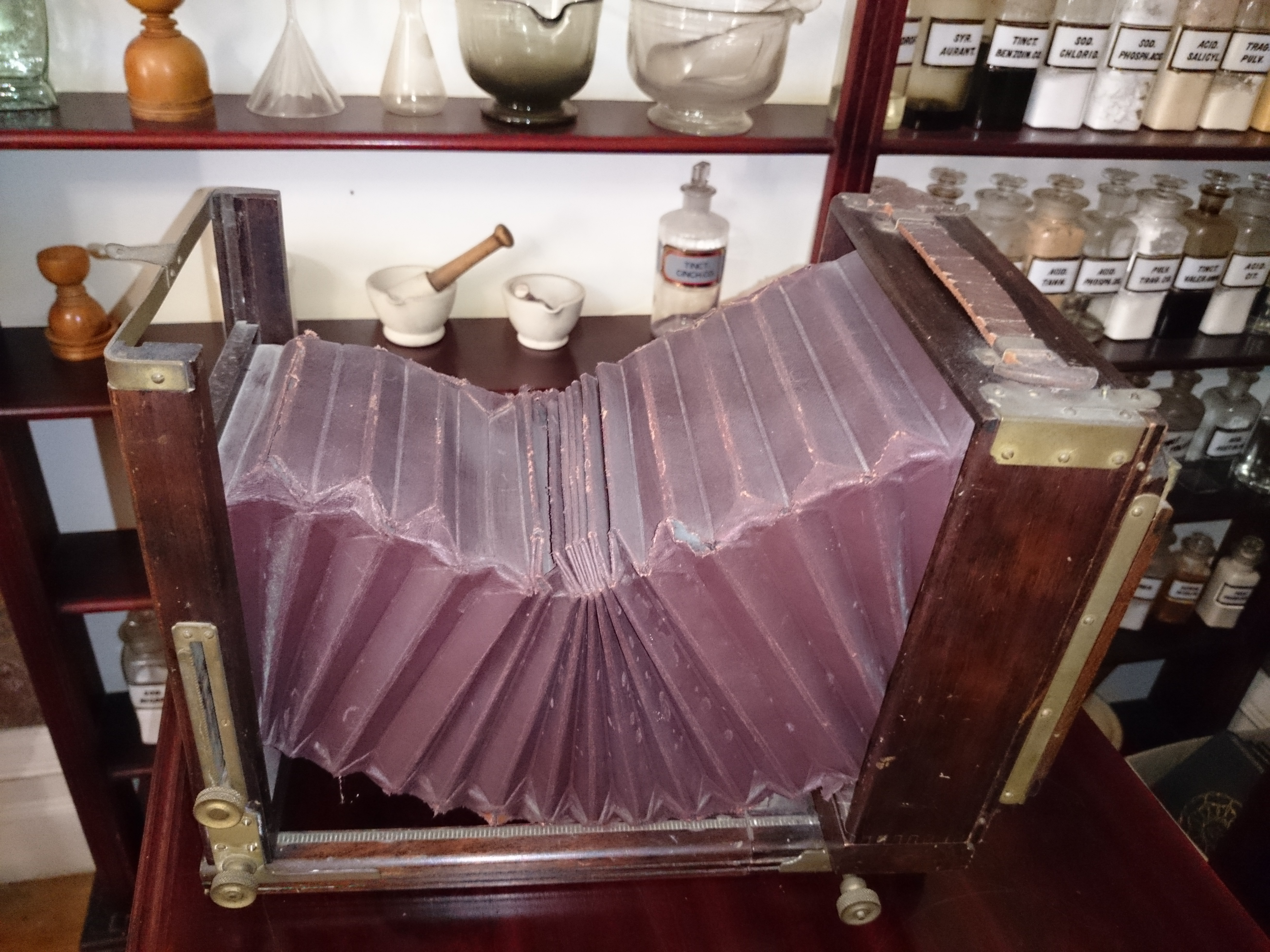 The side view of an x-ray device. An ancient one indeed. Not functioning.